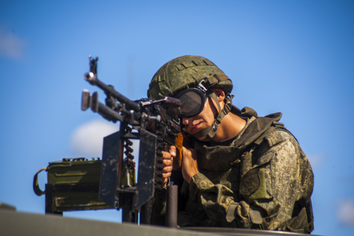 Russian Military Police special exercise in Mulino.